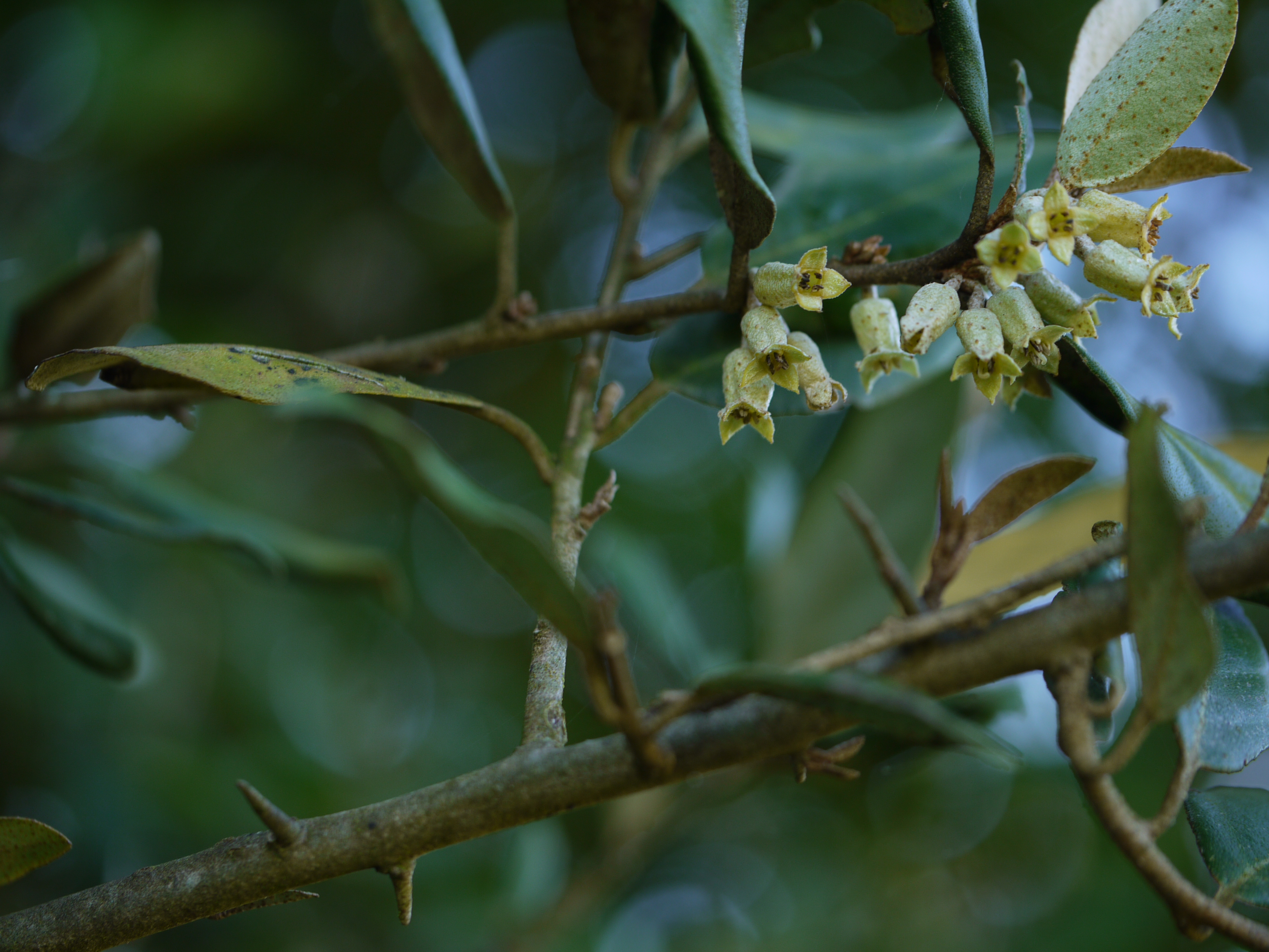 Elaeagnaceae (oleaster family) » Elaeagnus conferta Roxb. el-ee-AG-nus -- Greek: elaia (olive), agnos (pure), possibly referring to the fruit ... Dave's Botanary KON-fer-tuh or kon-FER-tuh -- crowded ... Dave's Botanary commonly known as: bastard oleaster, snake fruit, wild olive • Bengali: গুয়ারা guara • Garo: chhokhua • Jaintia: dieng-snlangi • Kannada: ಹಲಗೆ ಬಳ್ಳಿ halage balli, ಹೆಜ್ಜಾಲ hejjala, ಹಿಟ್ಟೆಲೆ hittele, ಹುಣಸೆ ಬಳ್ಳಿ hunase balli • Khasi: soh-shang • Konkani: आंबगूळ ambgul • Malayalam: അങ്കോലാങ്ക angolanga, അങ്കോലപ്പഴം angolapazham, അങ്കോലപ്പുളി angolapulli, കാട്ടുമുന്തിരി kattumunthiri • Manipuri: হৈযাঈ heiyai • Marathi: आंबगूळ amgul, नुरगी nurgi • Tamil: குரங்குப் பழம் kurankup-palam Distribution: s China, Indian subcontinent, s-e Asia References: Flowers of India • India Biodiversity Portal • ENVIS - FRLHT • Further Flowers of Sahyadri by Shrikant Ingalhalikar